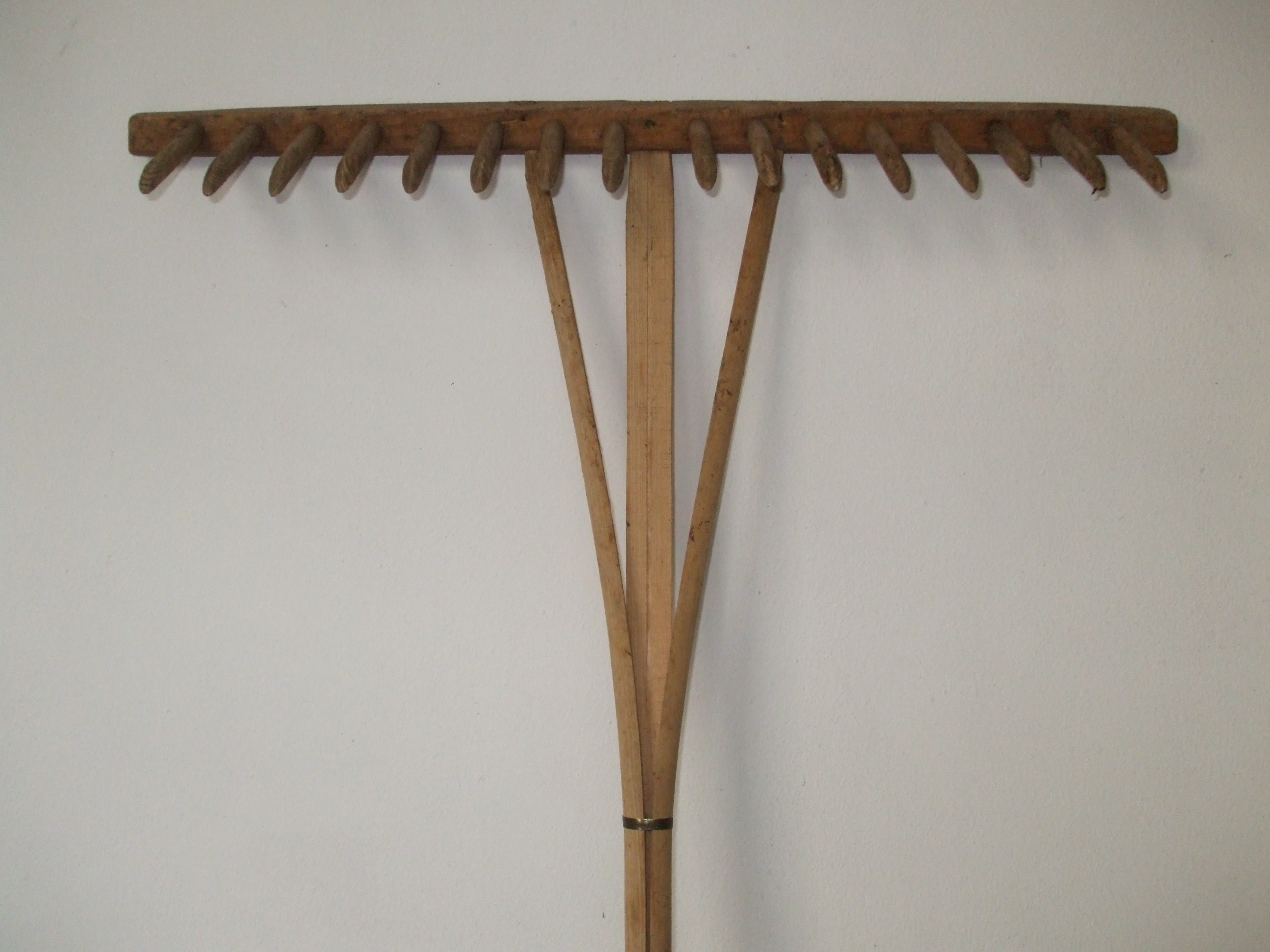 Wooden rake